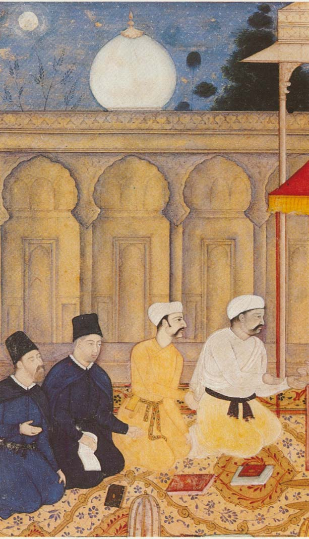 Jesuits in the 'Ibadat-Khanah' Source: "Gulbadan: Portrait of a Rose Princess at the Mughal Court," by Rumer Godden (New York: The Viking Press, 1980), p. 141. Scan by FWP, Sept. 2001. "Miniature (detail) from the Chester Beatty Library Akbar-namah, c.1605 (MS.3, f. 263b). Acquaviva and another Jesuit sitting in the `Ibadat Khana (House of Worship)." (Gulbadan p. 157)